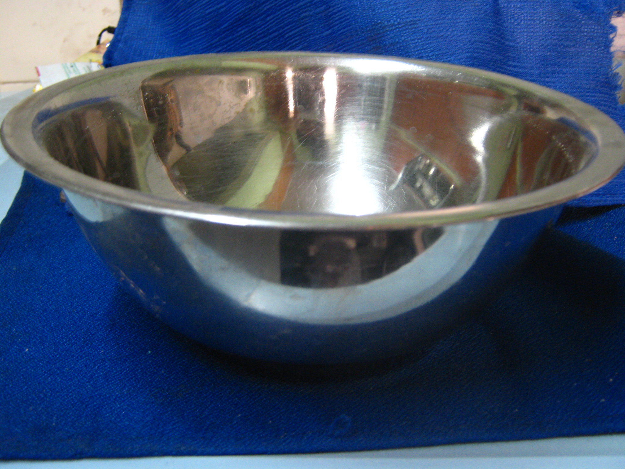 utensils used in Indian kitchen.